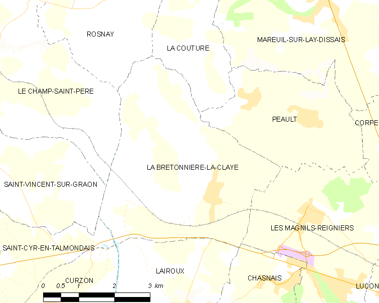 Map of French municipality La Bretonnière-la-Claye